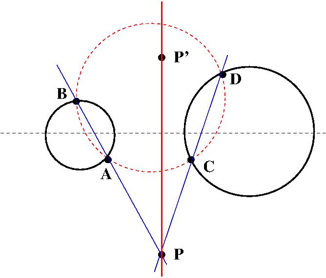 Construction of radical axis for two non-intersecting circles